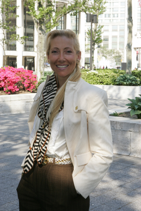 Picture of Juliette Passer.